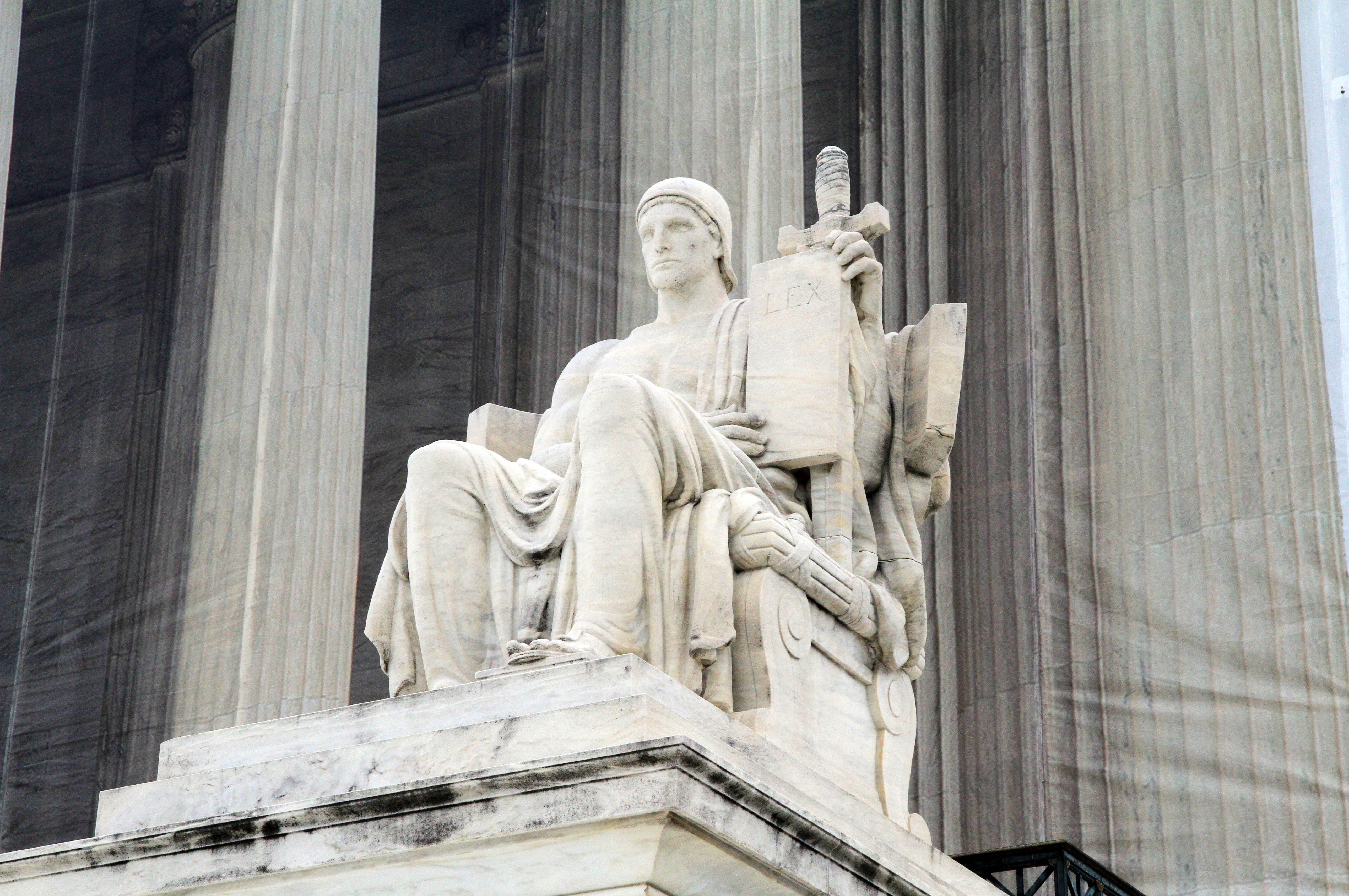 Supreme Court of the United States